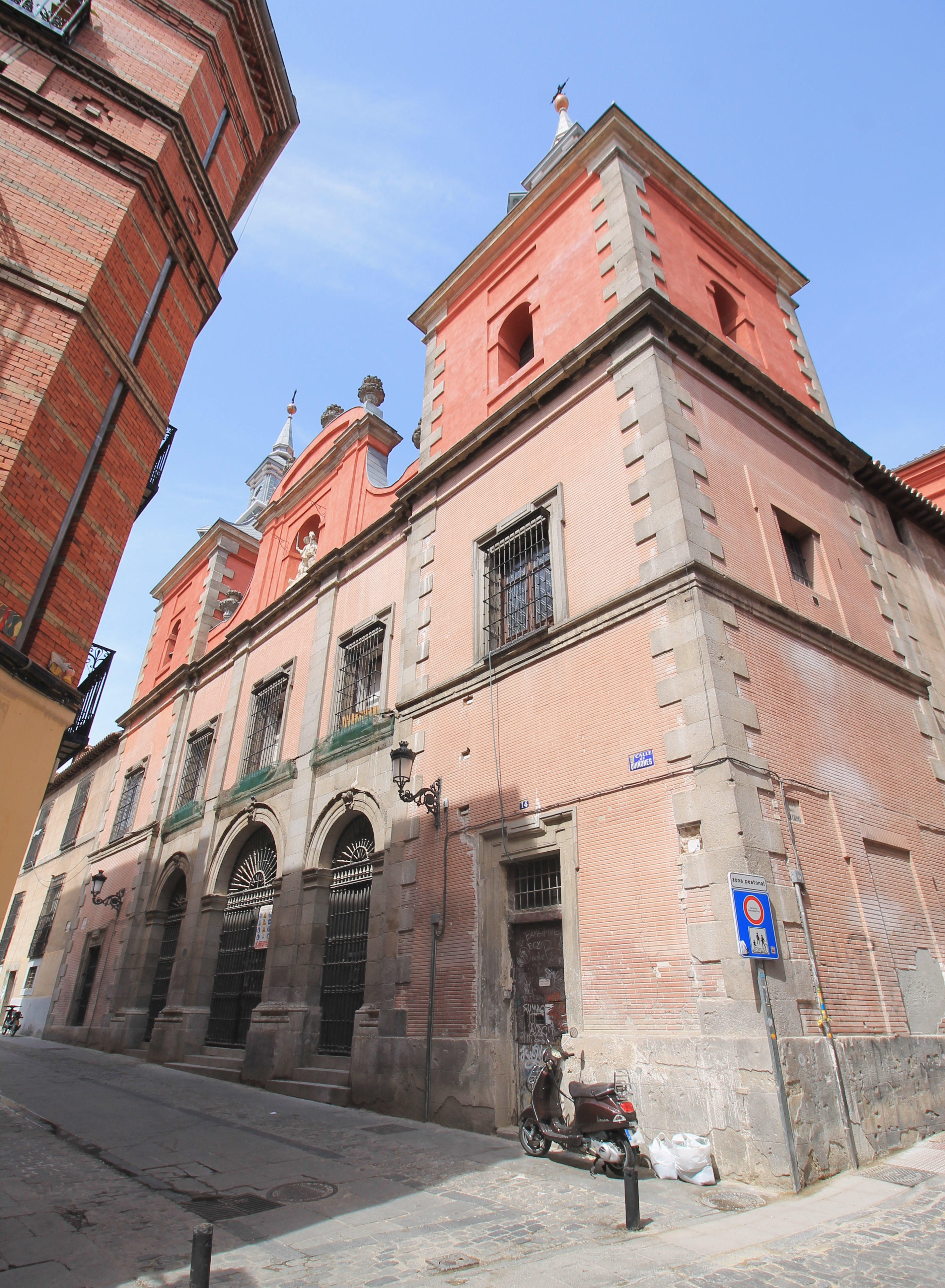 Church of Convento de las Comendadoras de Santiago (a convent) in Madrid (Spain).